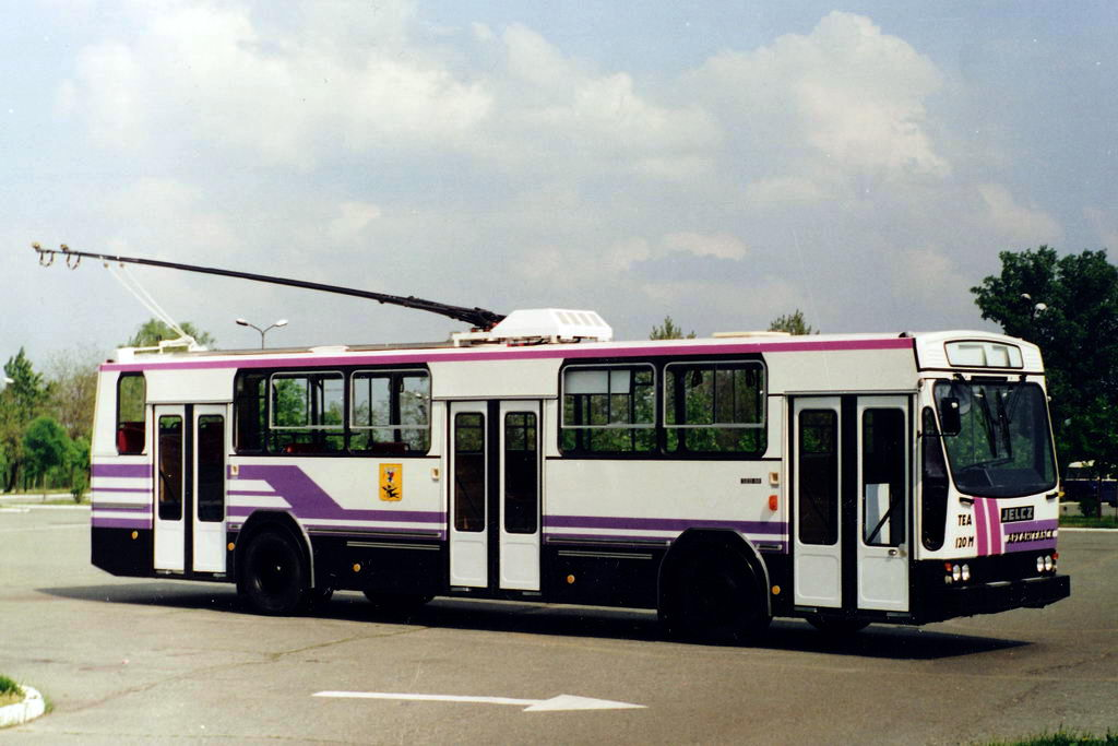 Jelcz trolleybus with Jelcz 120M body in Arkhangelsk, Russia. TEA.